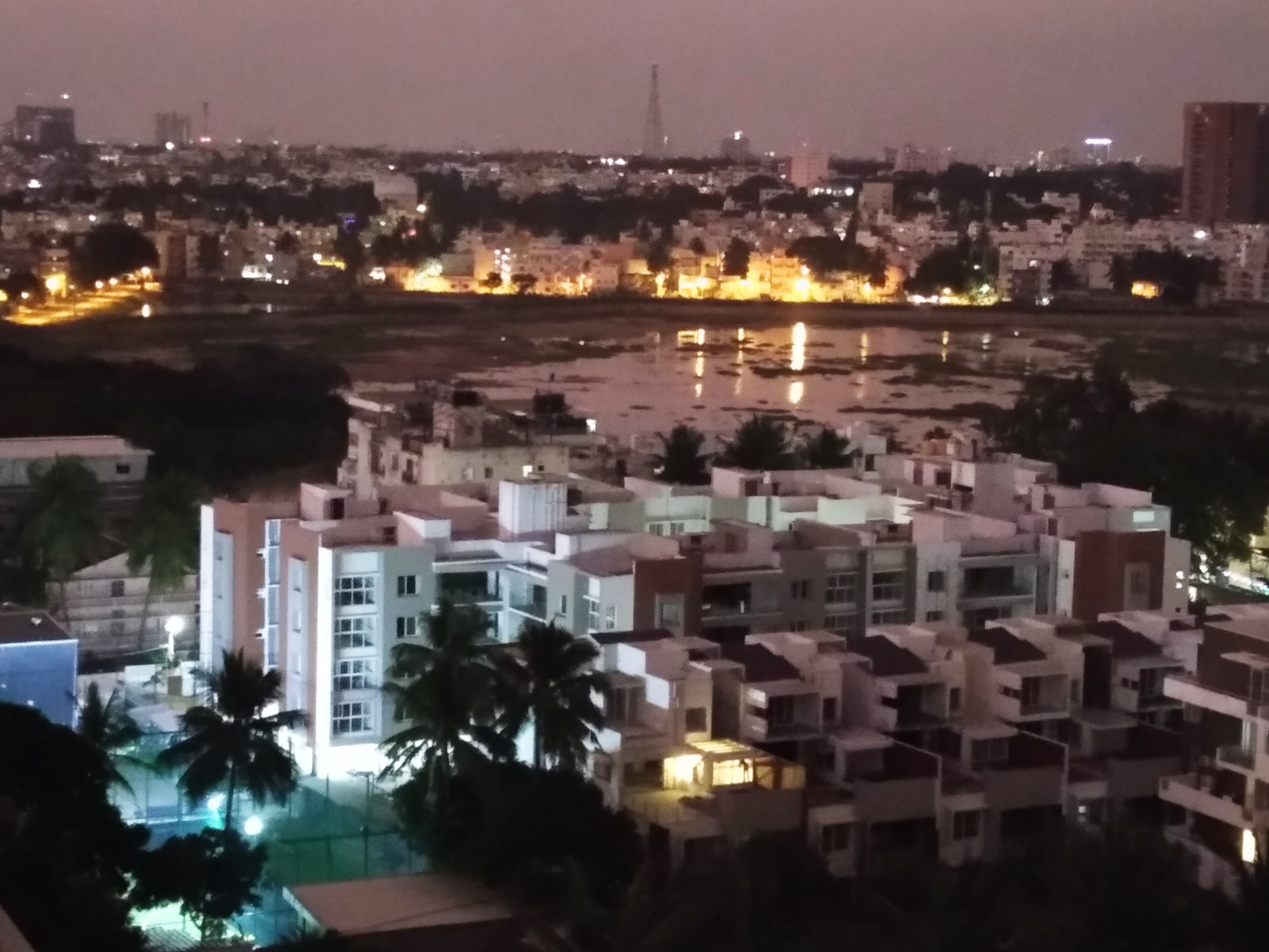 Photo of Sarakki lake Bangalore at night